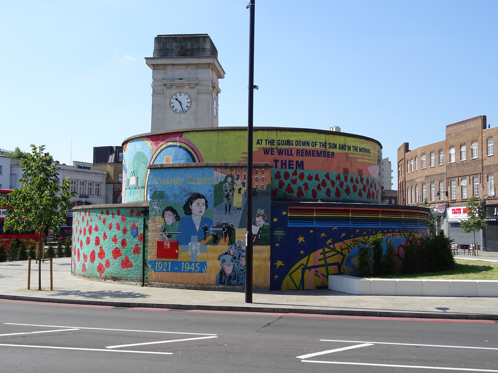 "In memory of Violette Szabo GC and the Stockwell residents who gave their lives in World War II. Unveiled by Virginia McKenna at a Special Remembrance Service on 26 June 2001, the 80th anniversary of Violette's birth, in the presence of Tania Szabo, the Mayor of Lambeth and the Brixton & Stockwell British Legion. Mural designed & painted by Brian Barnes and Marya Harris, based on designs from pupils at Stockwell Park School.A Stockwell Partnership project with the Clapham & Stockwell Town Centre initiative and Transport for London Street Management." - South Lambeth Road, London SW8 1UG